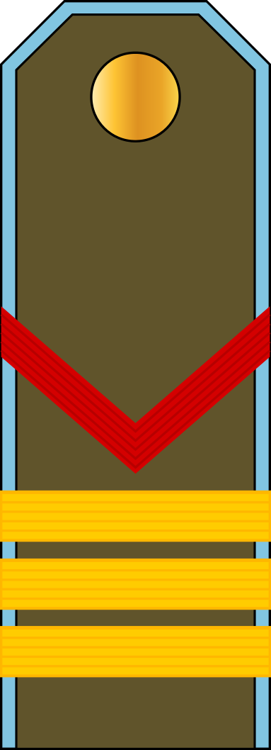 Chief Warrant Officer of Azerbaijan's Land Force